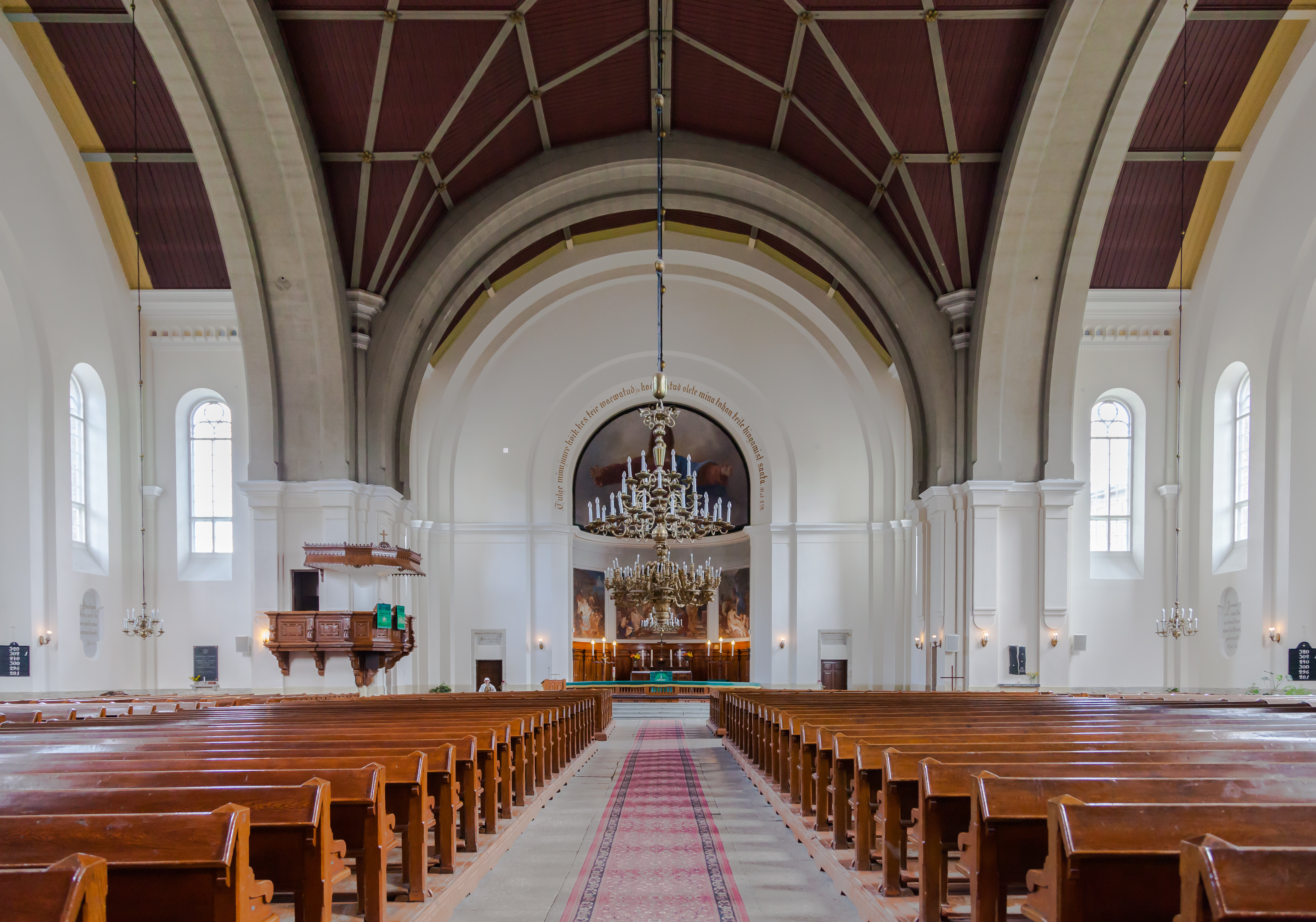 Charles's Church, Tallinn, Estonia